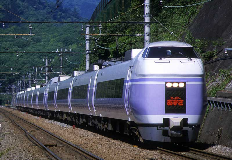 JR East E351 "Super Azusa" Express Service (Taken between Takao and Sagamiko, Chuo Main Line)